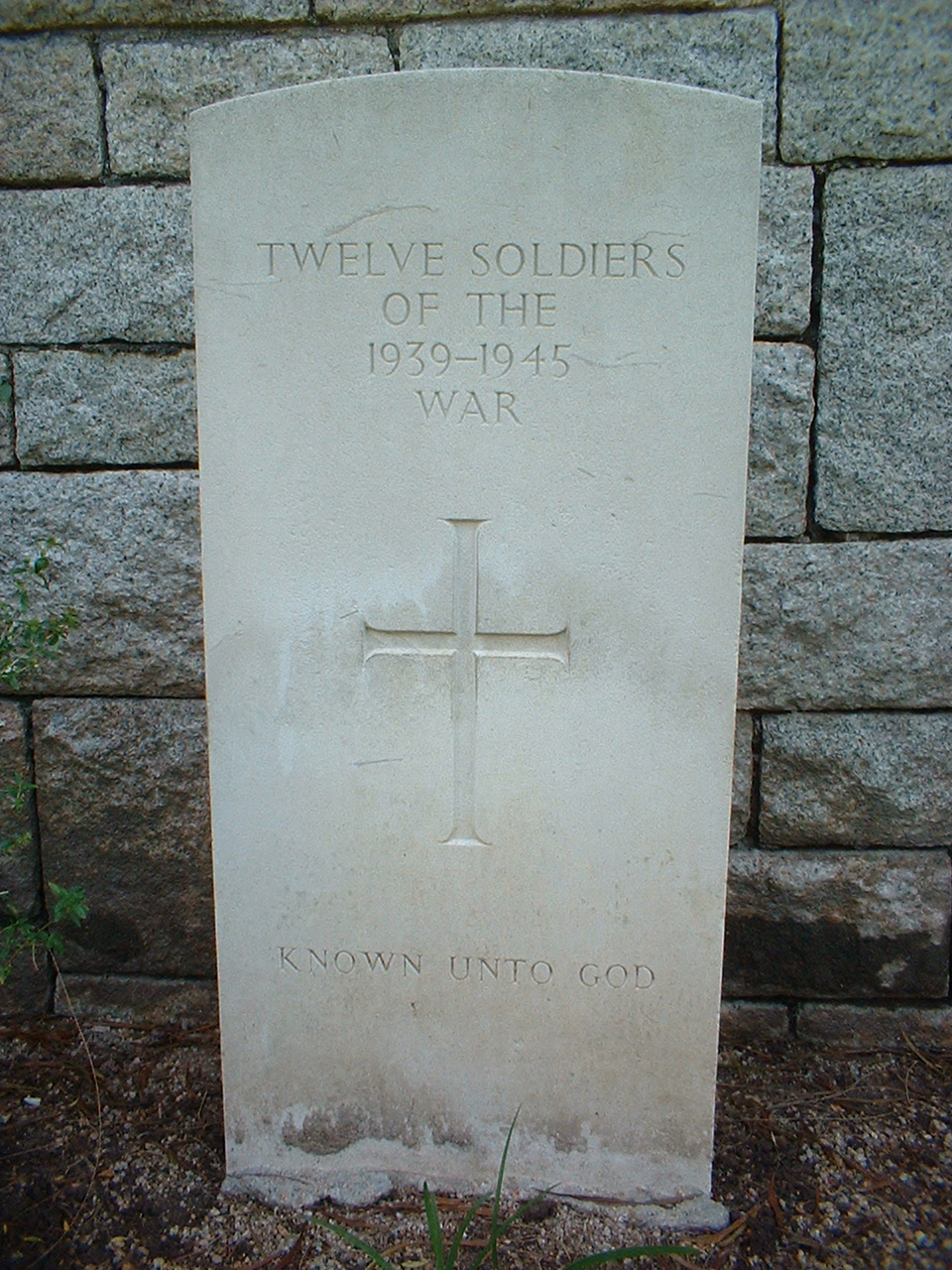 Headstone for 12 soldier who fell in the war at Stanley Military Cemetery